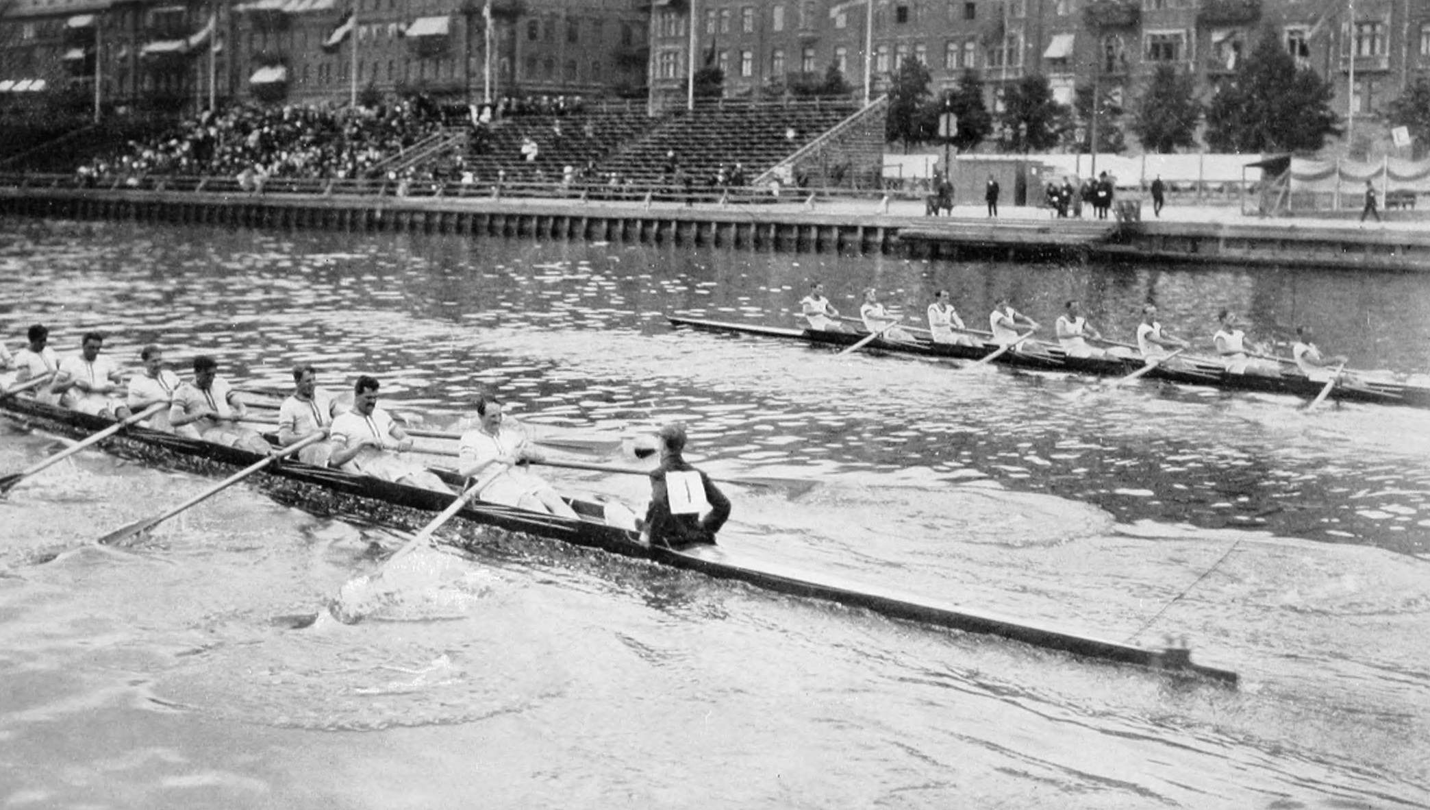 The British eights of the Leander Club (on the left) beating the Sydney Rowing Club of Australasia in the semi-finals at the 1912 Summer Olympics